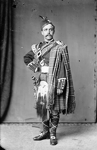 1 negative : glass, wet collodion, b&w ; 11 x 16.5 cm.